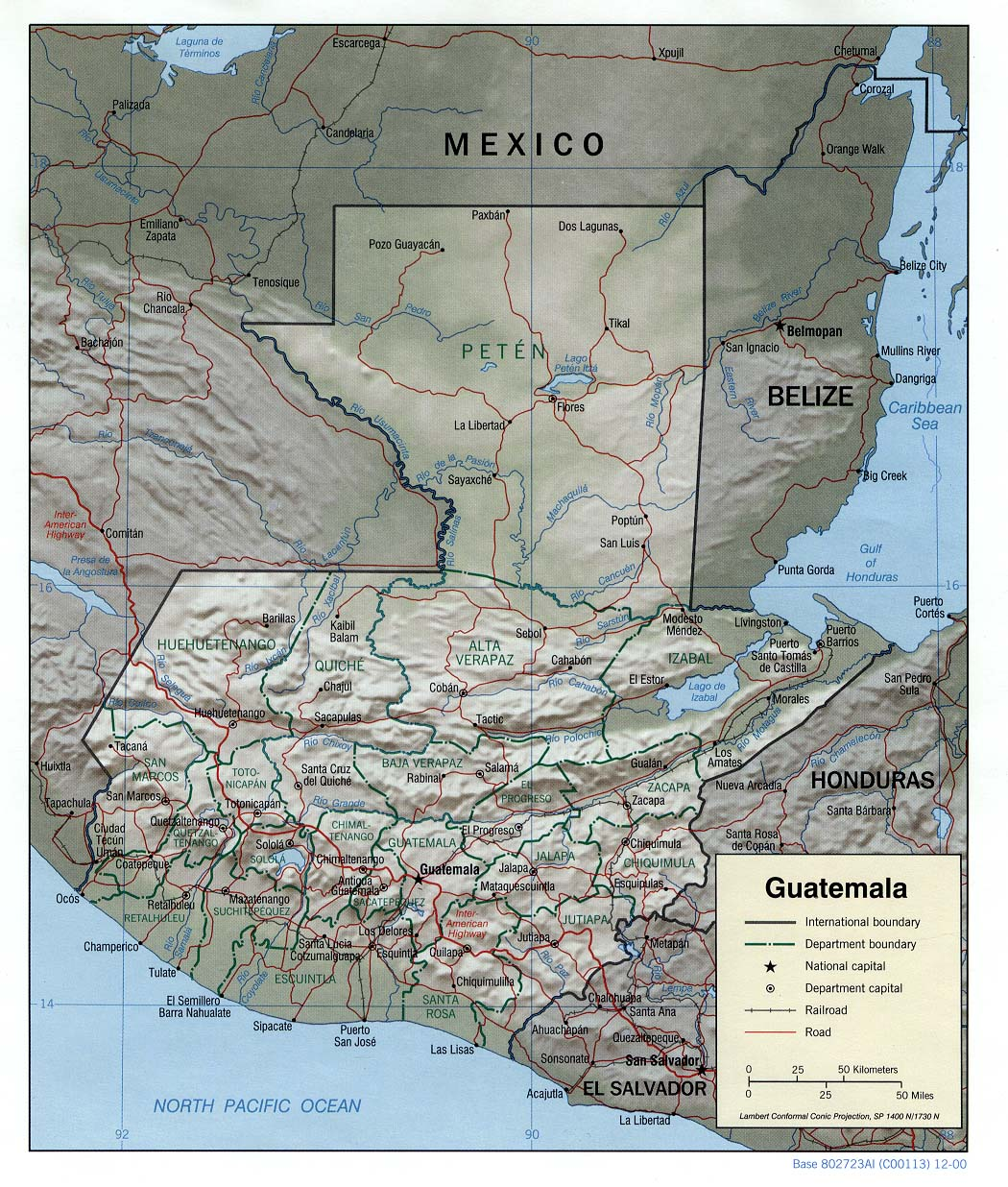 A geopolitical map of Guatemala